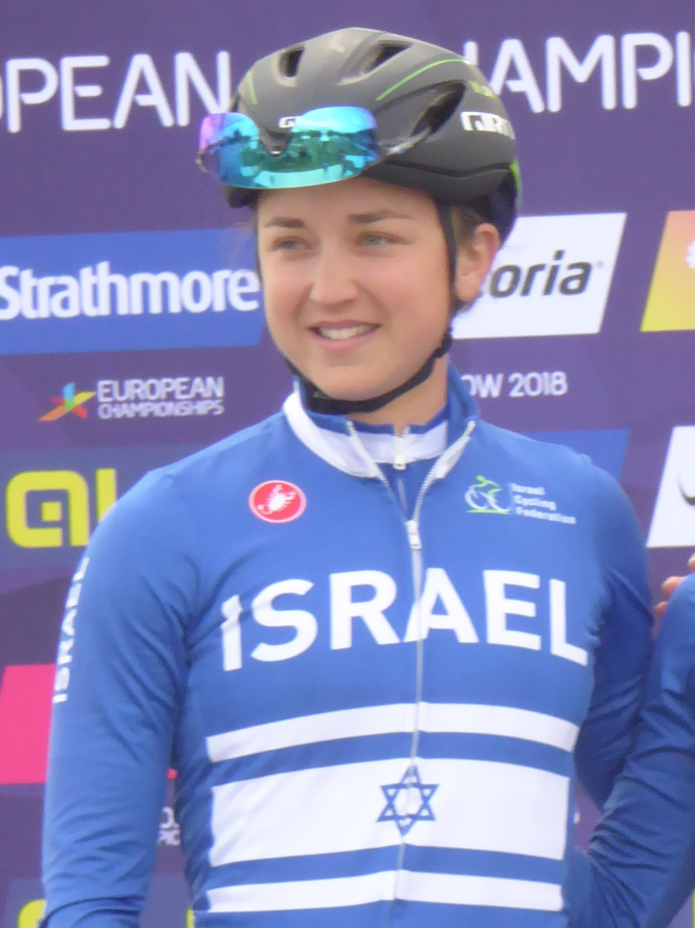 Rotem Gafinovitz (Israel), prior to the women's road race at the 2018 UEC European Road Cycling Championships in Glasgow.